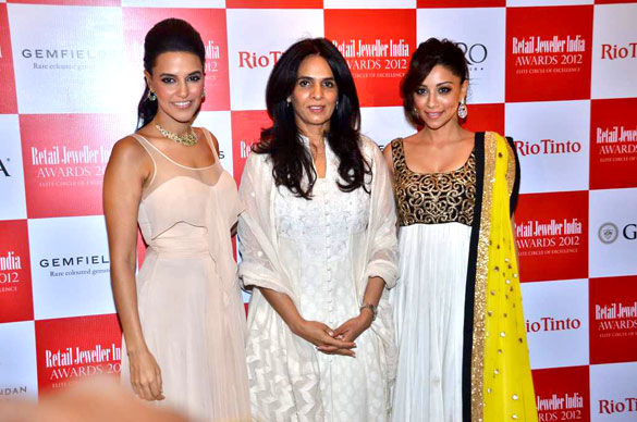 Neha Dhupia, Anita Dongre, Amrita Puri at '8th Annual Gemfields RioTinto Retail Jeweller India Awards 2012' meet